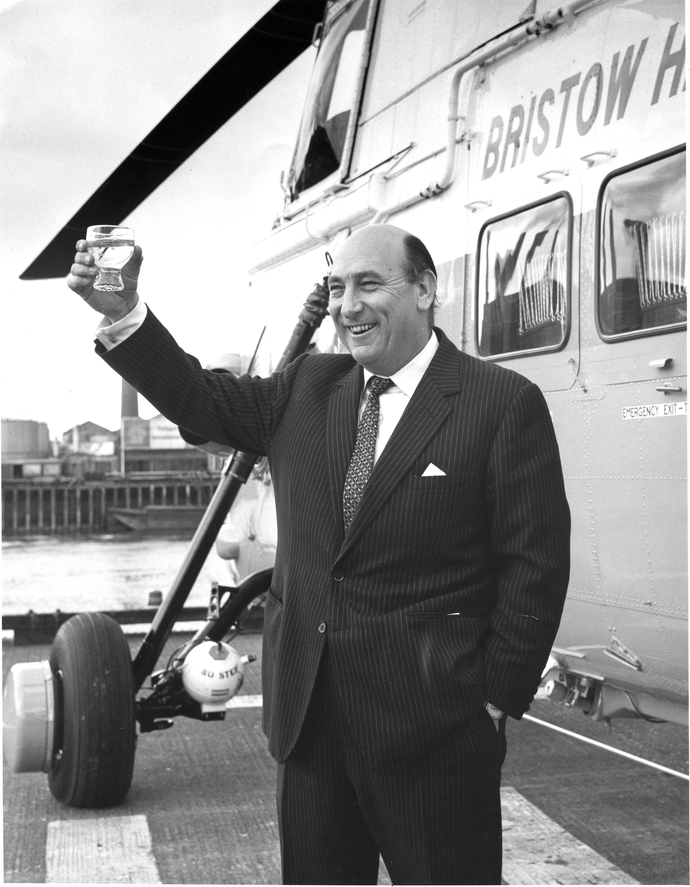 Alan Bristow raising a glass on 13 May 2009. Photo taken by Bristow's wife; rights held by Patrick Malone.